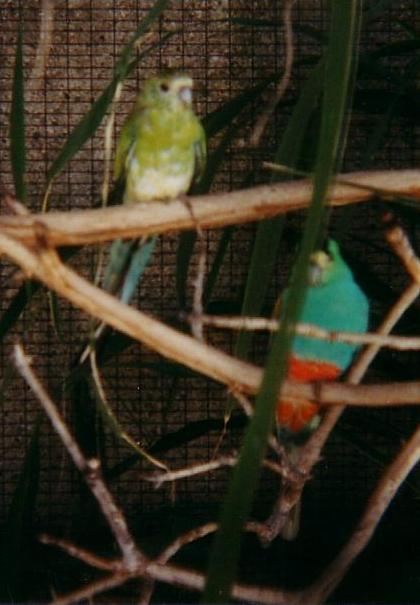 Male and female Golden-shouldered Parrots in an aviary at the Queensland Museum (photo 2004).